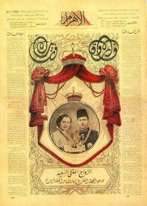 Al-Ahram edition on the day of Queen's Farida marriage